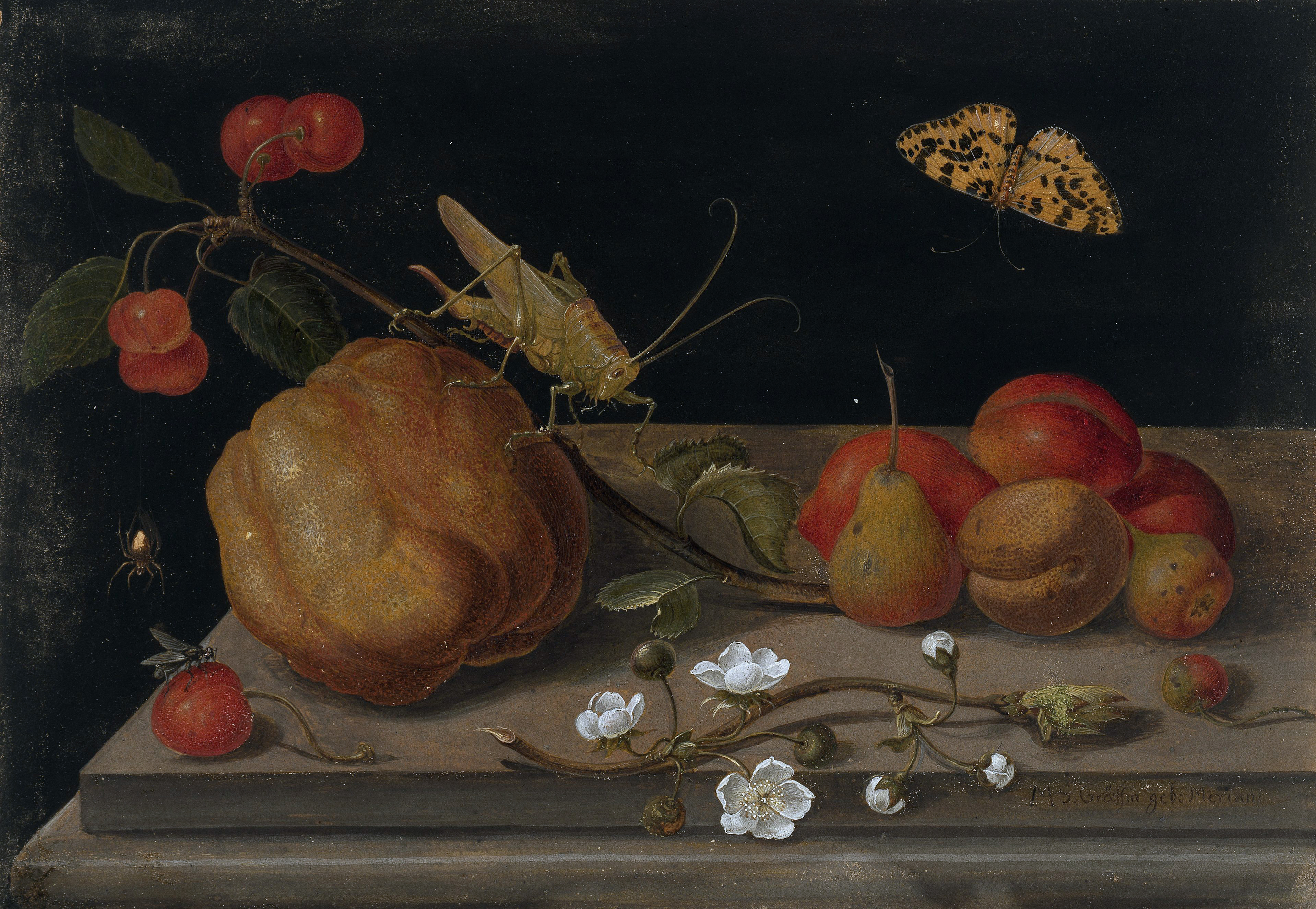 Stillleben mit Früchten, einer Heuschrecke und einem Schmetterling